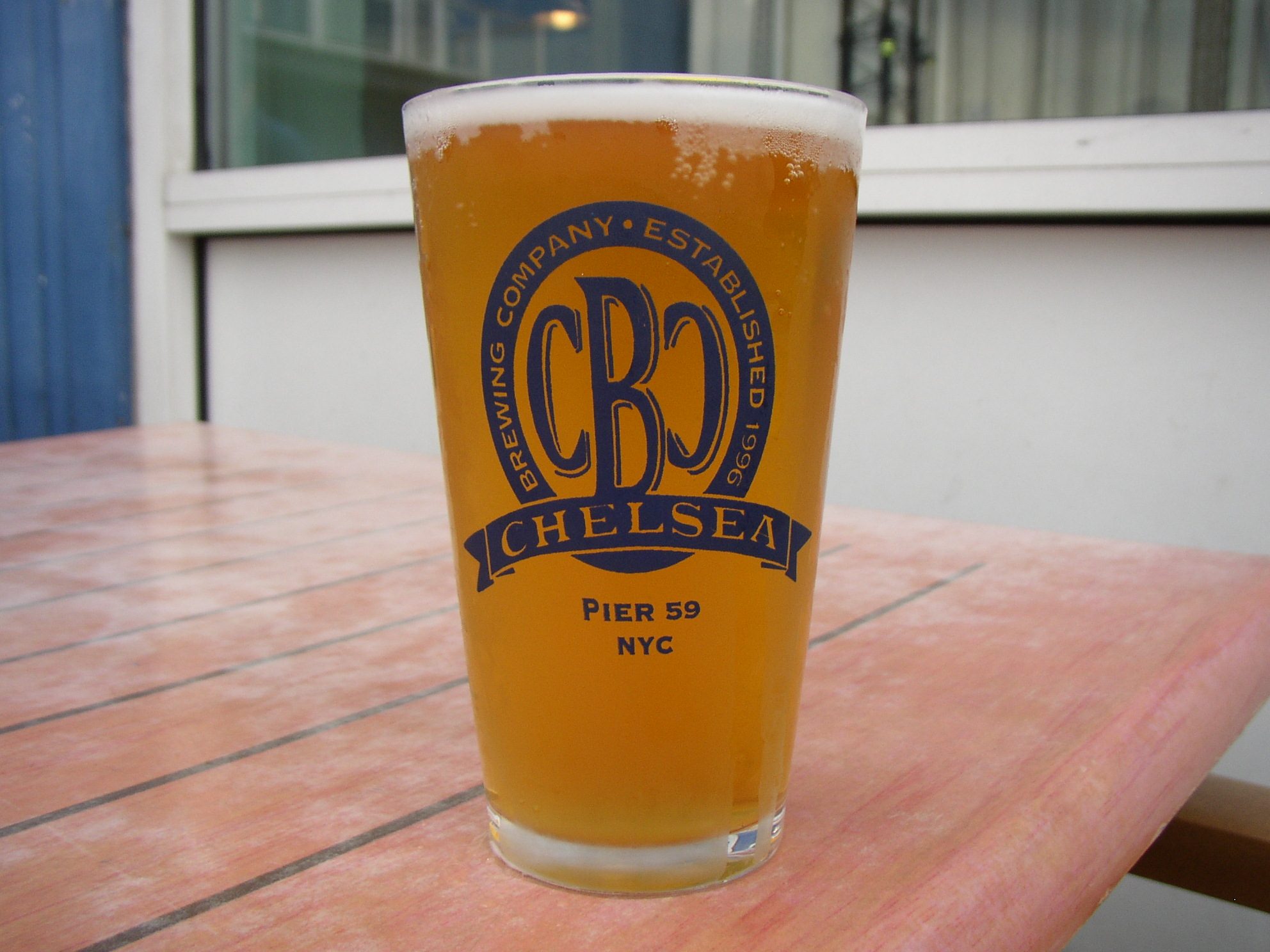 Beer in a glas of the Chelsea Brewing Company Pier 59 NYC